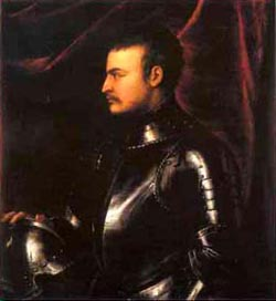 The portrait, based on the death mask of Giovanni dalle Bande Nere, was commissioned by Pietro Aretino to Titian, but it wasn't painted. The commission then passed to the painter Gian Paolo Pace, said "l'Olmo", who painted the portrait between October and November 1545. Then Pietro Aretino donated it to the Duke Cosimo I de 'Medici, Giovanni's son. The painting is remembered in Florence for the first time in 1559: in the Ricordanze by Giorgio Vasari, the artist remembers having copied it as fresco in the "Sala di Giovanni dalle Bande Nere" in Palazzo Vecchio (painted between 1556 and 1559). In 1560 is described for the first time in the inventory of the "Guardaroba" of the Medicis, where it is attributed to Titian. The attribution persisted in all the inventories and subsequent studies, until 1905, with the studies of Georg Gronau before and then of Ettore Camesasca, who put together Pace's activities. The painting was used for many copies: among many others, in addition to those already mentioned by Vasari in the Palazzo Vecchio, you can remember the double portrait with his wife Maria Salviati (copy after Giovanni Battista Naldini, with variation on Giovanni's figure, inv. 1890 No. 5534), a copy of the seventeenth century (inv., 1890, No. 5360). Cat. No. 00129465